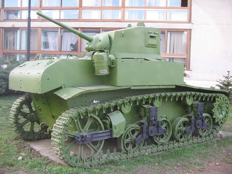 An M3A1 Stuart light tank at the Museum of Republic of Srpska in Banja Luka, in the Republika Srpska entity of Bosnia and Herzegovina. (Note this tank has its gun pointed rearward.)